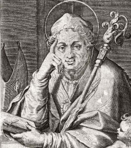 Saint Augustine of Canterbury